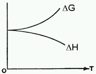 Energy curves as T approaches 0